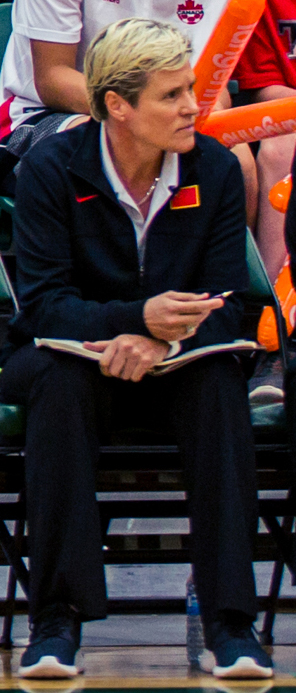 Michele Timms of the China women's national basketball team during the 2016 Edmonton Grads International Classic series